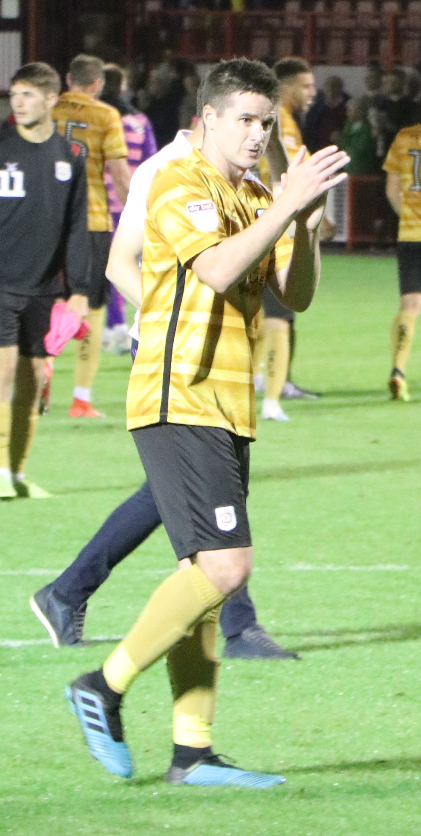 Crewe Alexandra footballer Eddie Nolan at Crawley Town